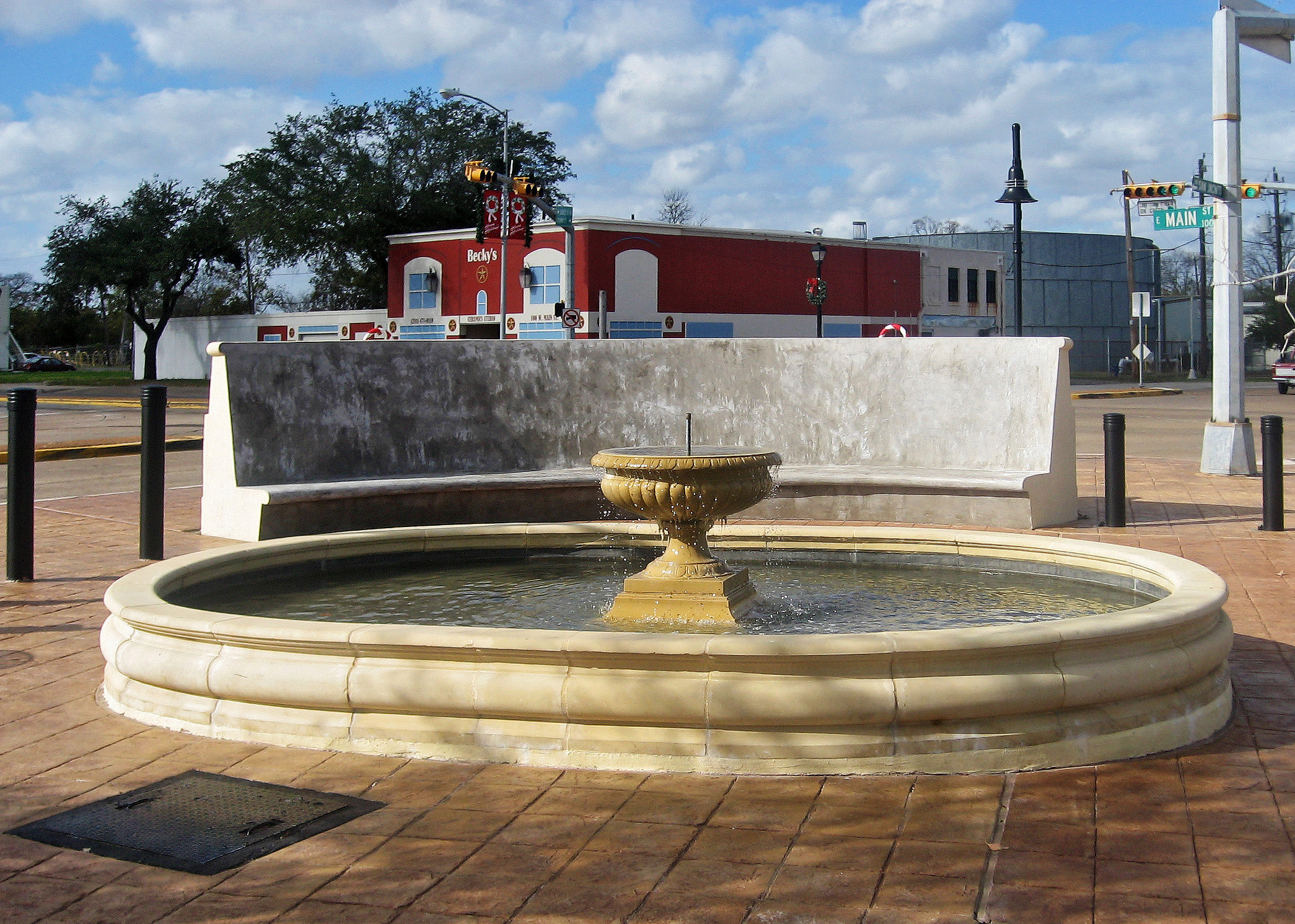 Called Five Points Town Plaza because back in the day five streets intersected at this point and people would meet there. La Porte has built a plaza there.